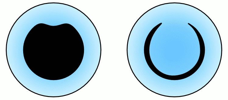 An eye of a fish from the family Loricariidae. Left: in dark (night), right in light (day).